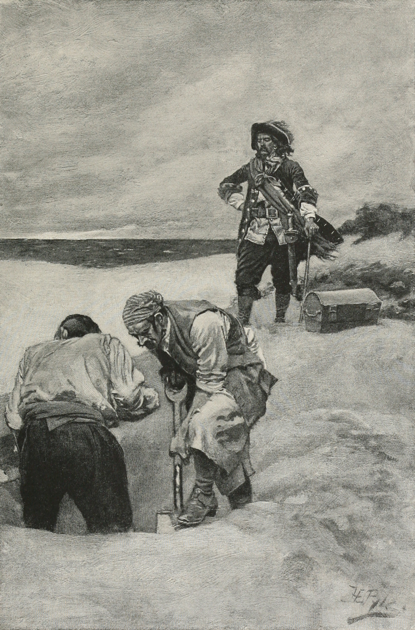 Kidd at Gardiner's Island: illustration of pirate captain William Kidd's supervision of the burial of his treasure at Gardiner's Island